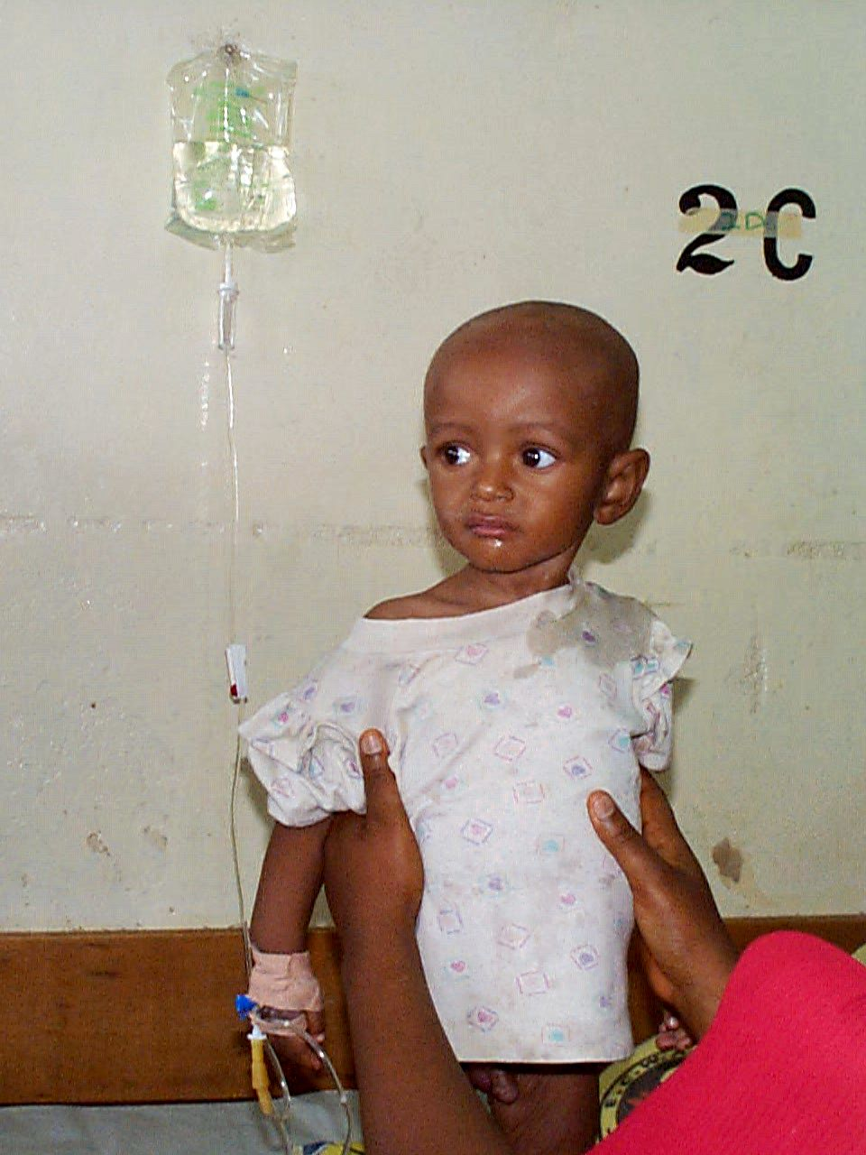 Young patient with IV drip. ECWA Evangel Hospital, Jos, Nigeria